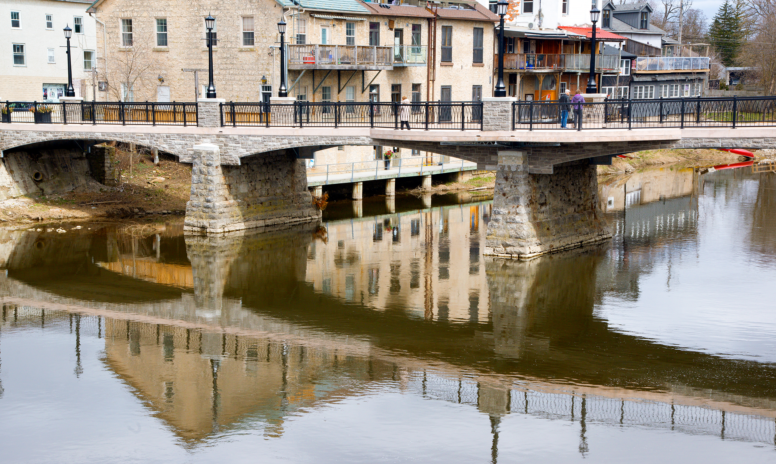 The pedestrian bridge in Elora was completed in 2019 and opened in November; it replaced an earlier bridge demolished in 2006